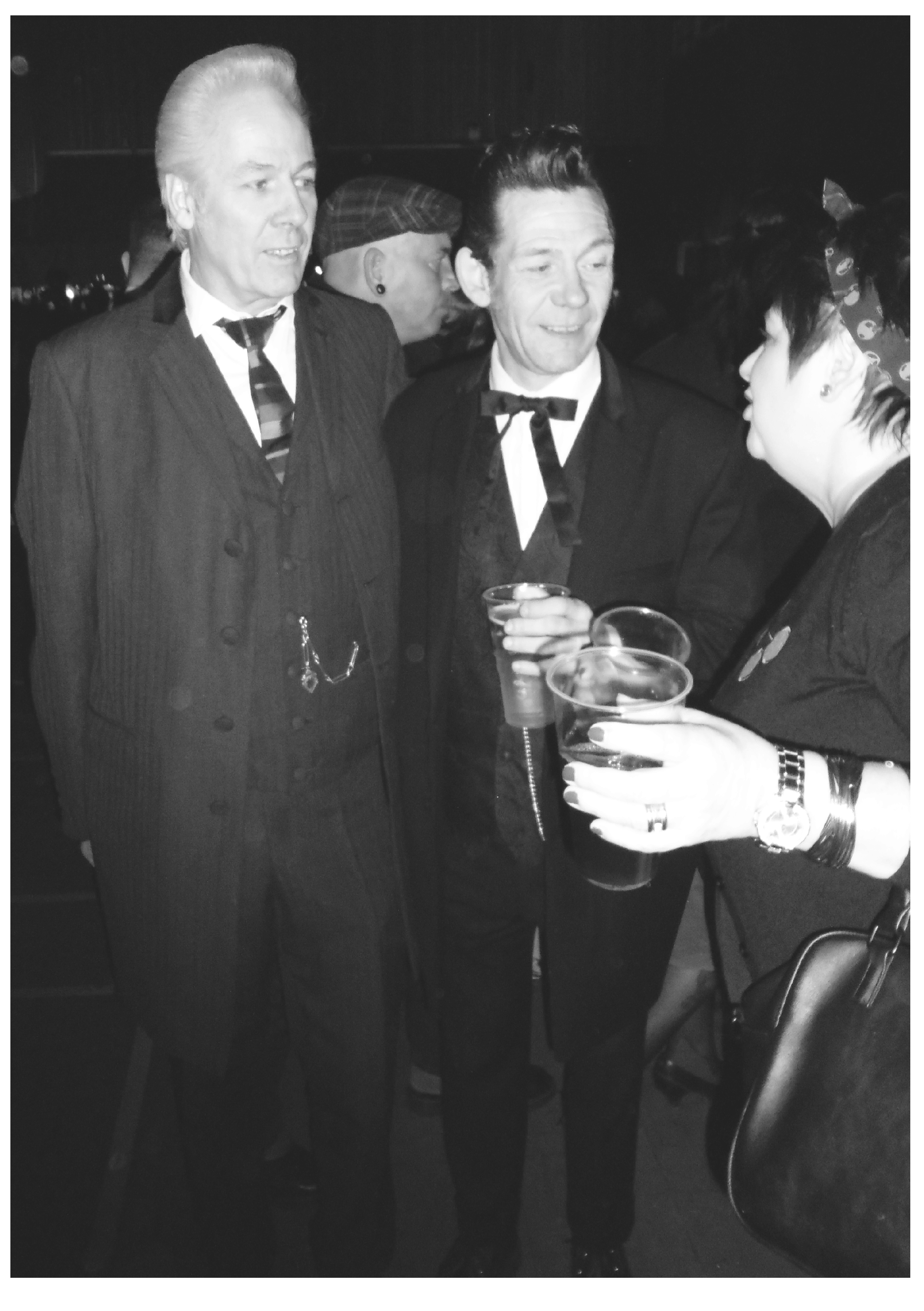 Two traditionally-dressed Teddy Boys